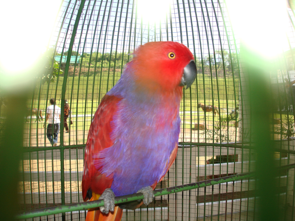 A female Eclectus Parrot Eclectus roratus at Chavit Singson's Baluarte.